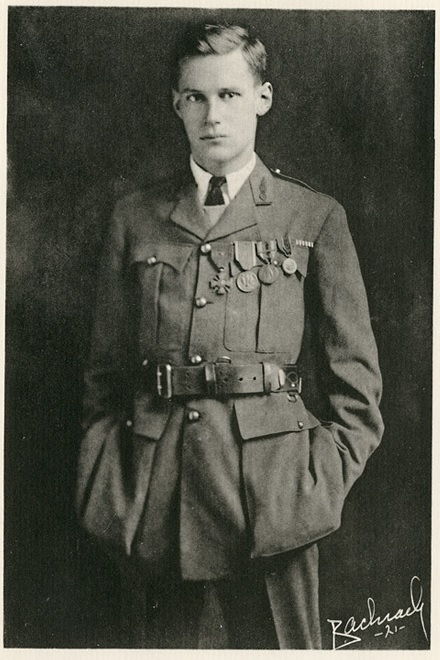 Harry Crosby shortly after Armistice Day, 1919, displaying his decorations.